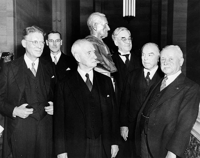 Unveiling ceremony of bust of Sir Lyman P. Duff at the Supreme Court Building. (L.-R.:) James Lorimer Ilsley, James Chalmers McRuer, Sir Lyman Duff, John T. Hackett, K.C., William Lyon Mackenzie King, Thibaudeau Rinfret